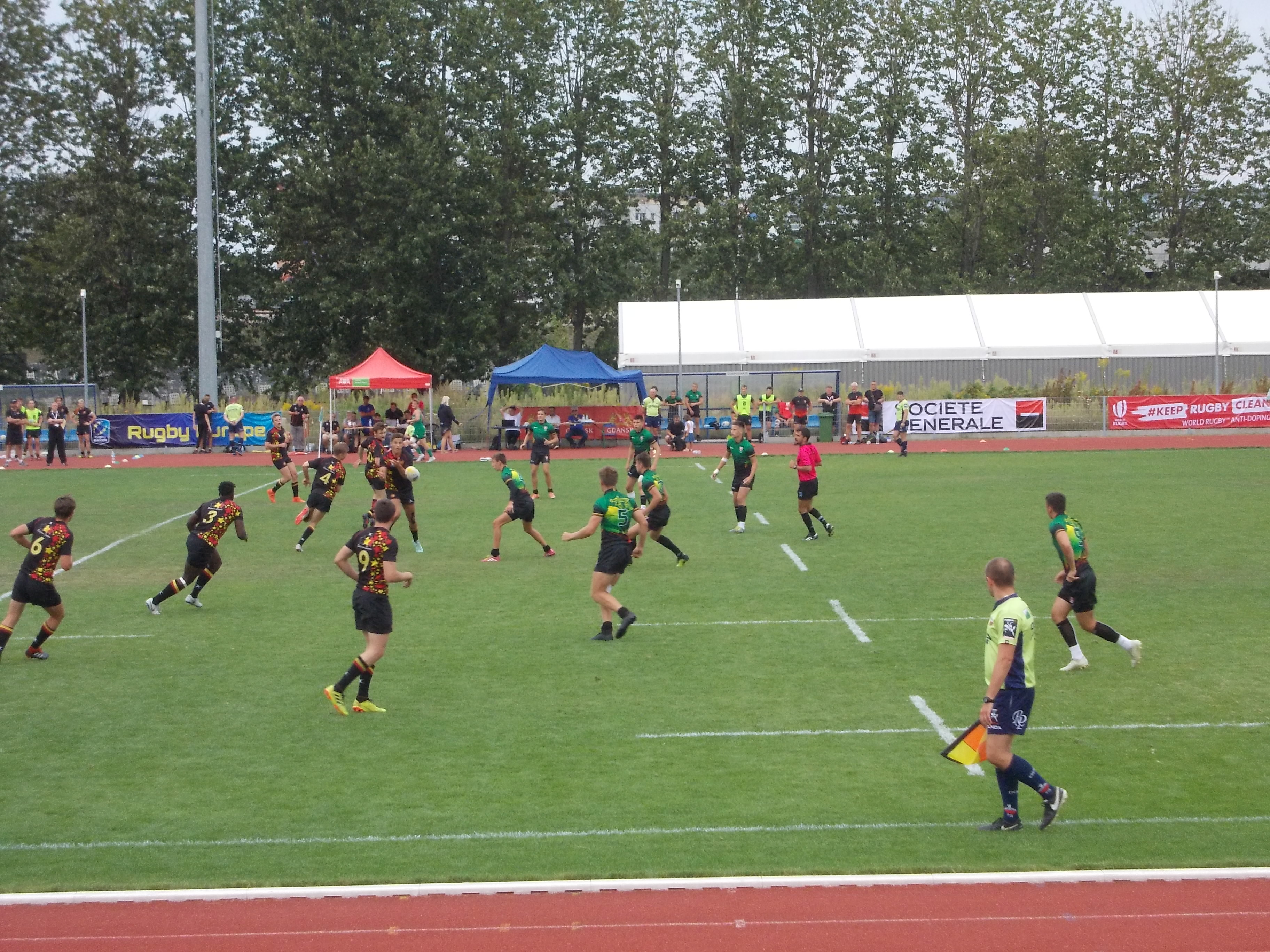 2019 Rugby Europe Men Under 18 Sevens Championship in Gdańsk